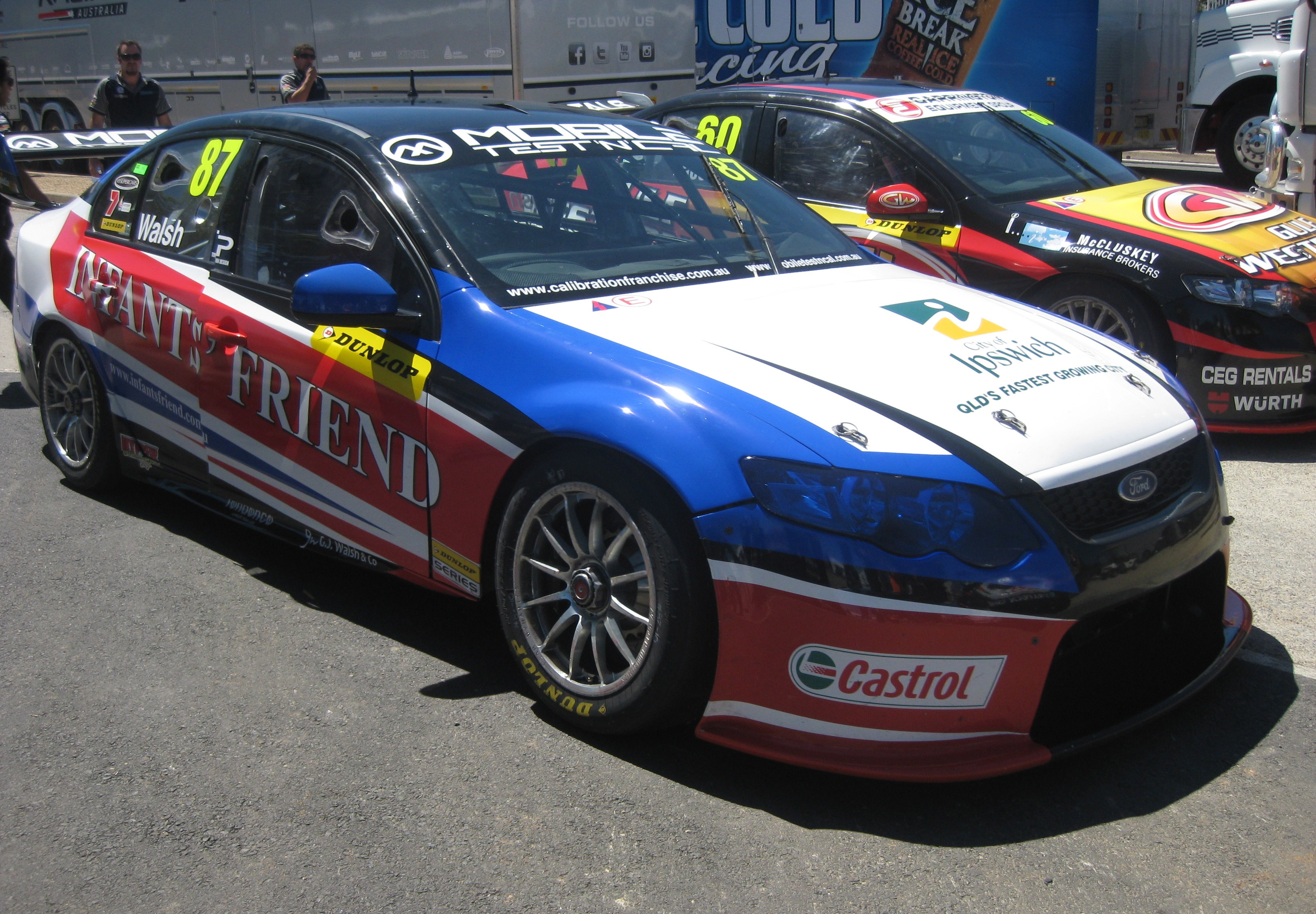 The Matt Stone Racing Ford FG Falcon of Ashley Walsh at the Adelaide round of the 2013 Dunlop Series